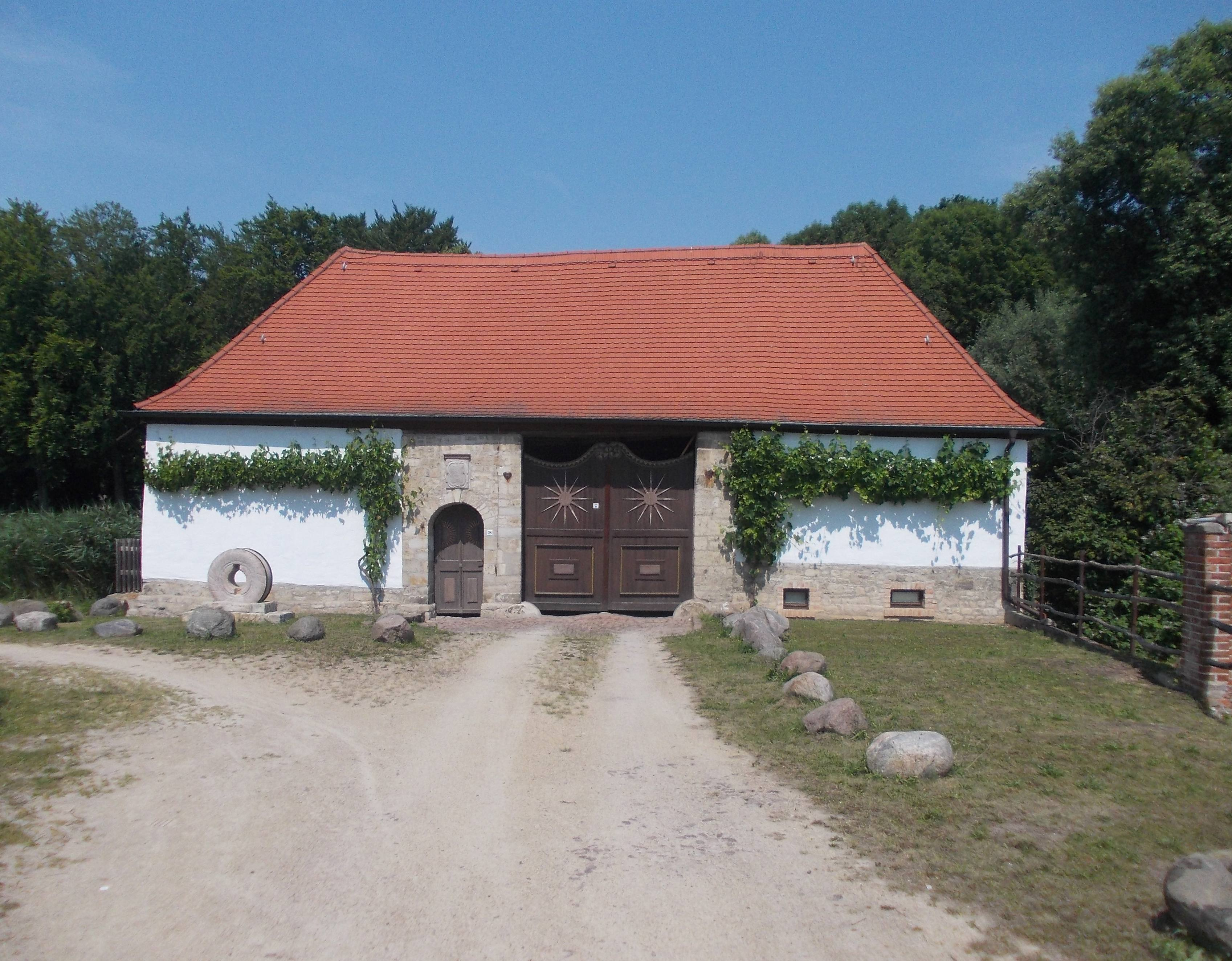 Sun Gate of the former Bedra water mill (Braunsbedra, district: Saalekreis, Saxony-Anhalt)